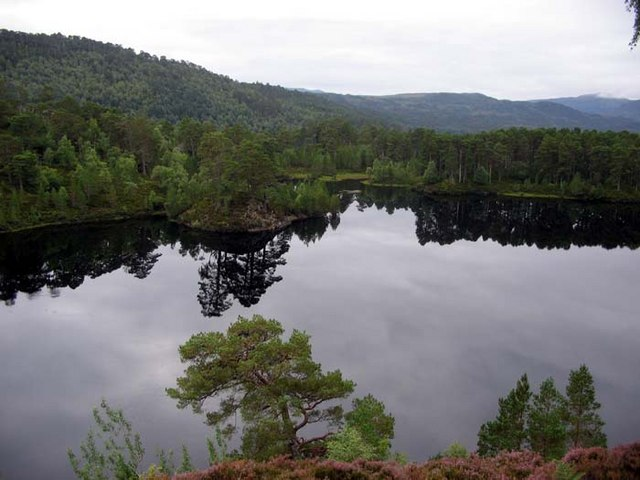 Autumn on Loch Affric